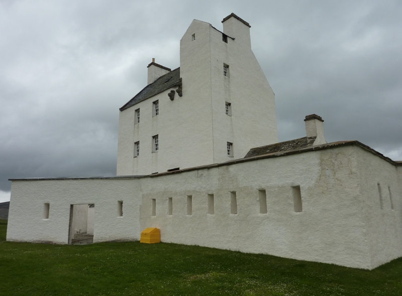 Corgarff Castle, Aberdeenshire, Scotland. Southern entrance.